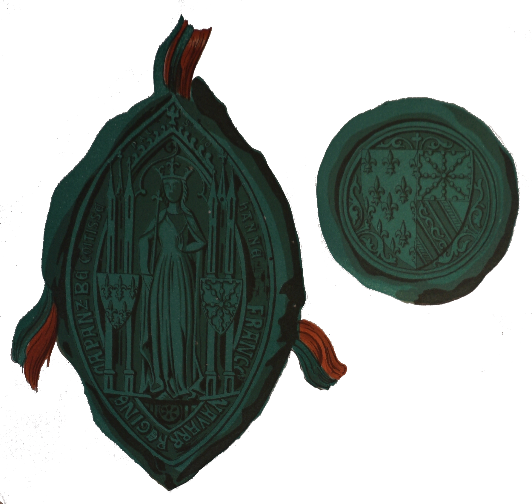 Joan I of Navarre